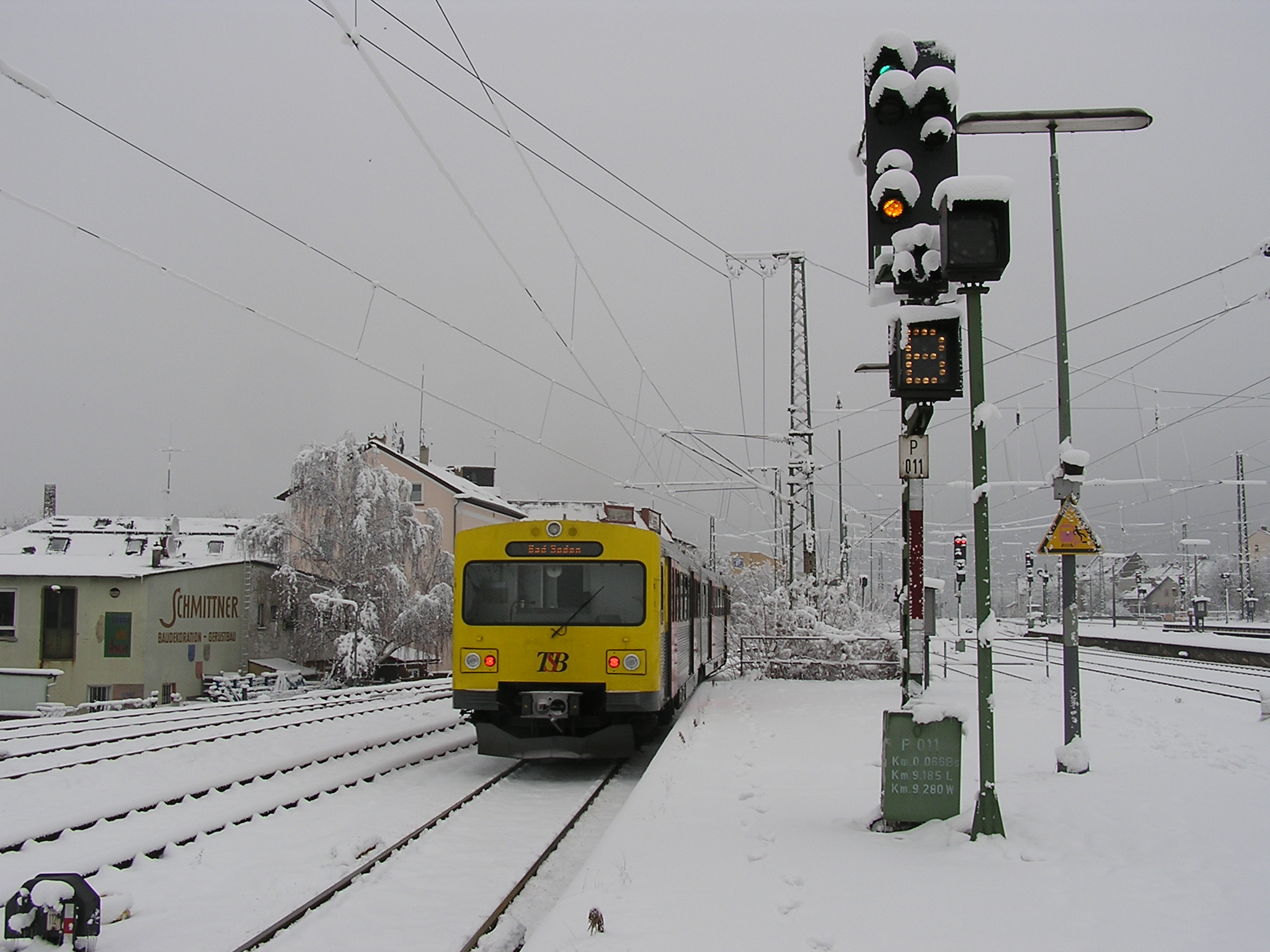 A VT 2E of the Hessische Landesbahn leaves the station Frankfurt-Höchst. The exiting signal shows Hp 2 (proceed with reduced speed) and the Richtungsanzeiger indicates the route on the Sodener Bahn to Bad Soden.